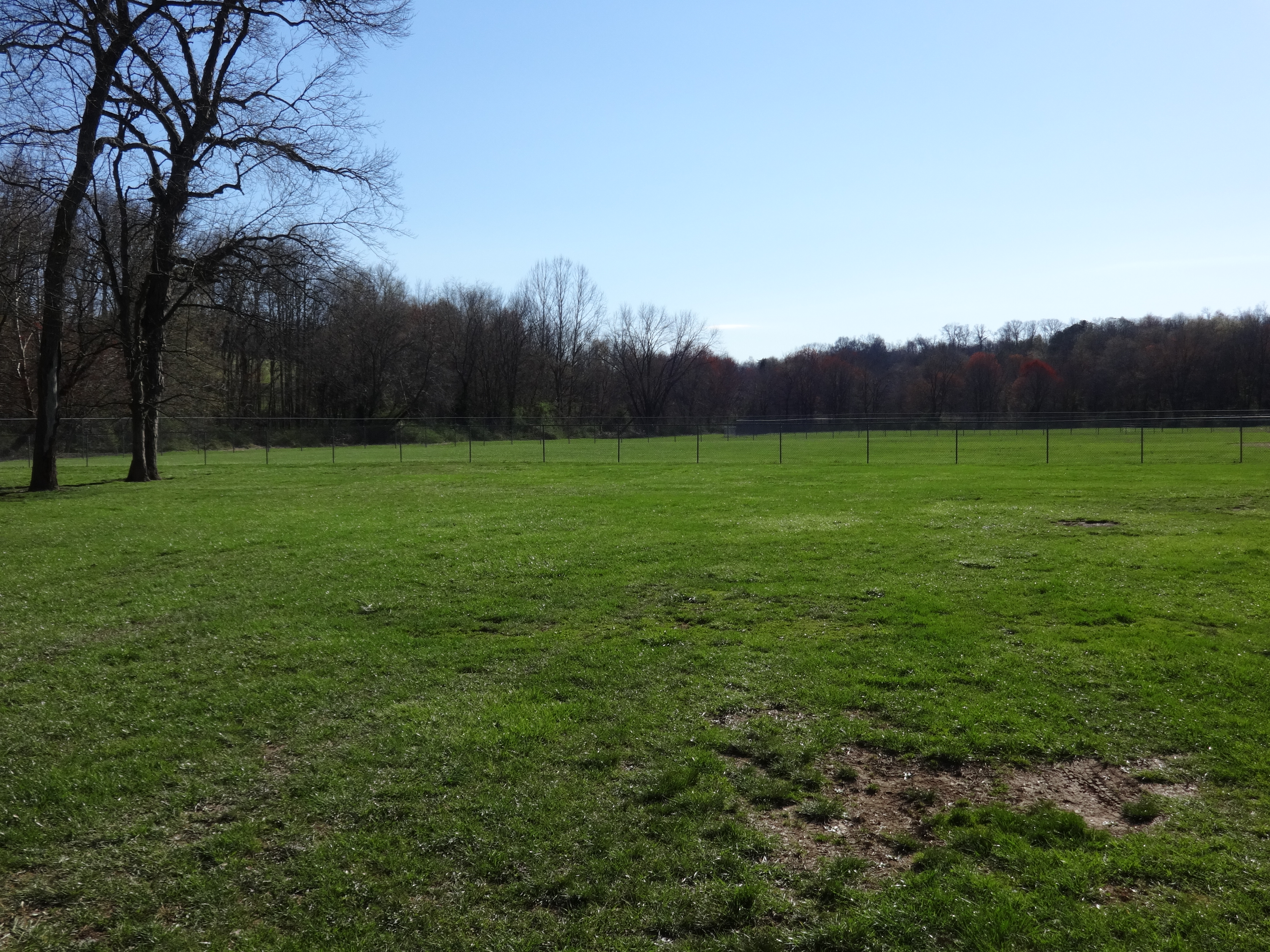 Salt Box Ball Field near Gillis Falls Park, Woodbine/Mount Airy, Carroll County, Maryland.